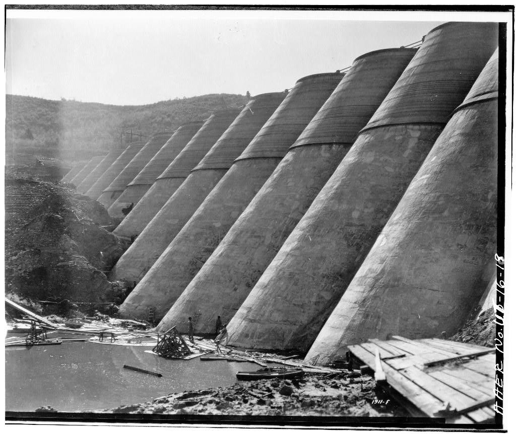 Mountain Dell Dam, near Salt Lake City, Utah Photocopy of a photograph (original in the Collection of the Salt lake City Engineer's Office)--ca. 1925--GENERAL VIEW OF THE UPSTREAM SIDE OF THE DAM FOLLOWING COMPLETION OF CONSTRUCTION. THERE IS ESSENTIALLY NO WATER IN THE RESERVOIR